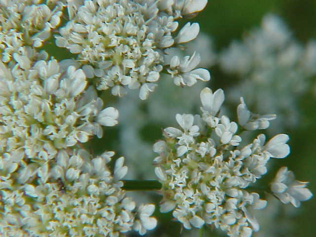 Species: Oenanthe pimpinelloides Family: Apiaceae Image No. 2